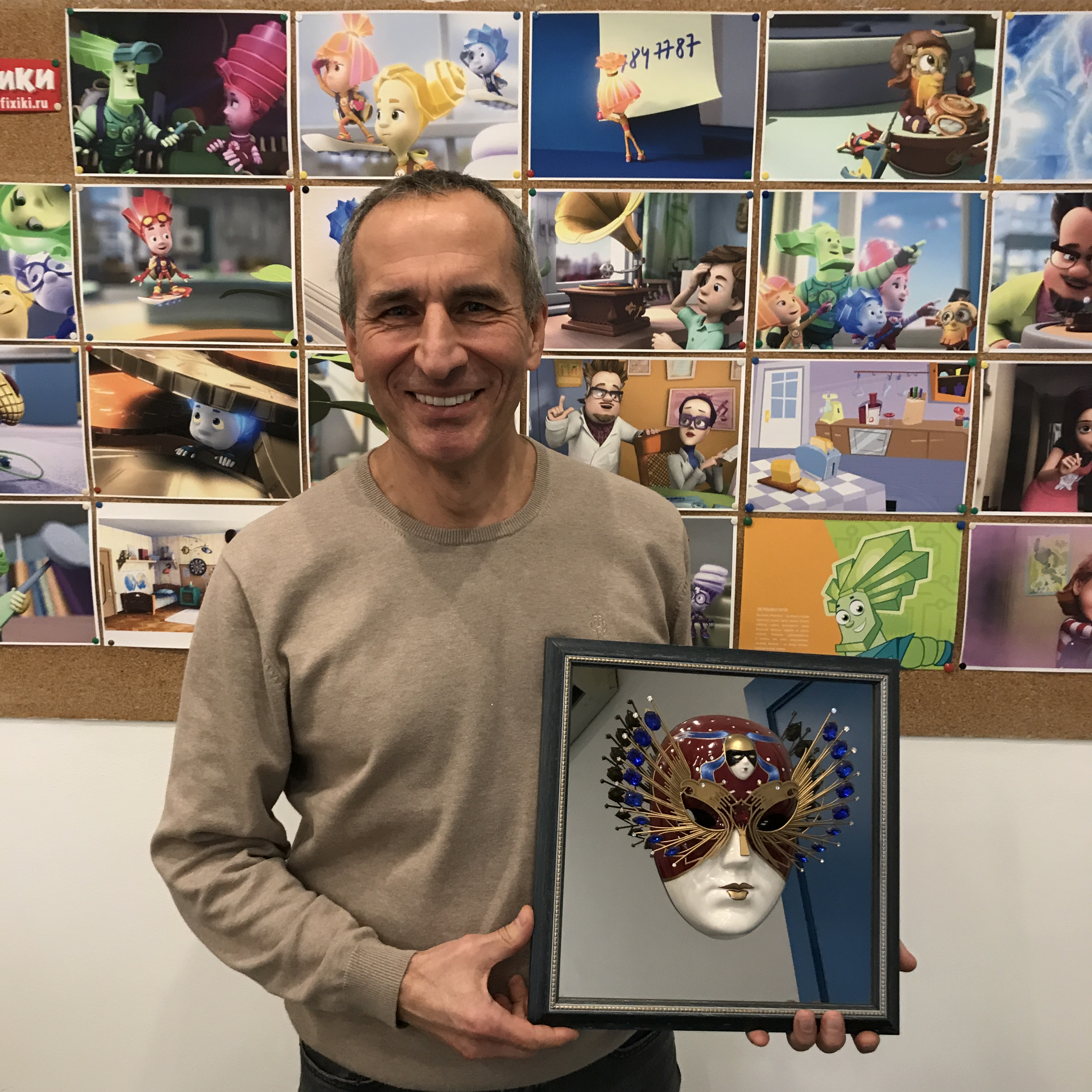 Meeting Georgy Vasiliev and Dmitry Erokhin